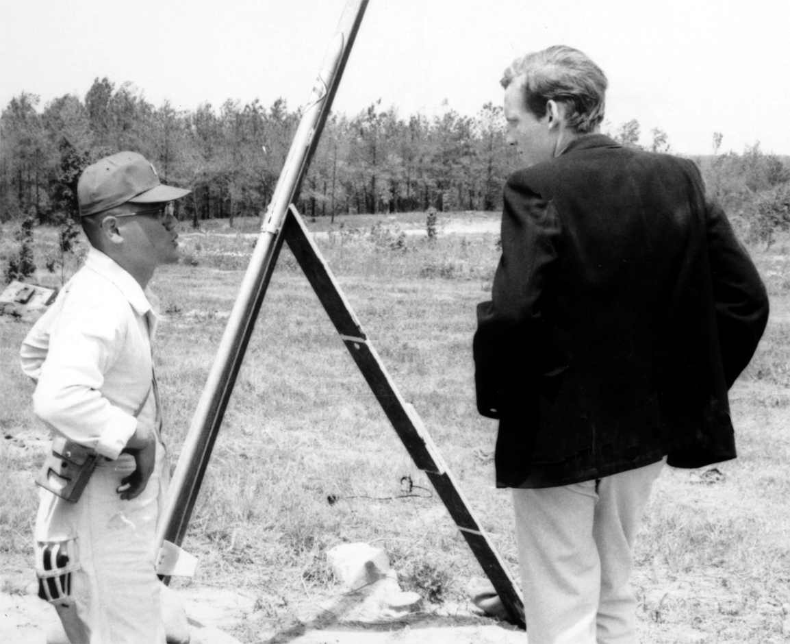 R. C. Michelson as a youth discussing the imminent launch of his Ft. Sill Alpha rocket with a Camp Pickett Army Technician prior to placing the blasting cap primer.